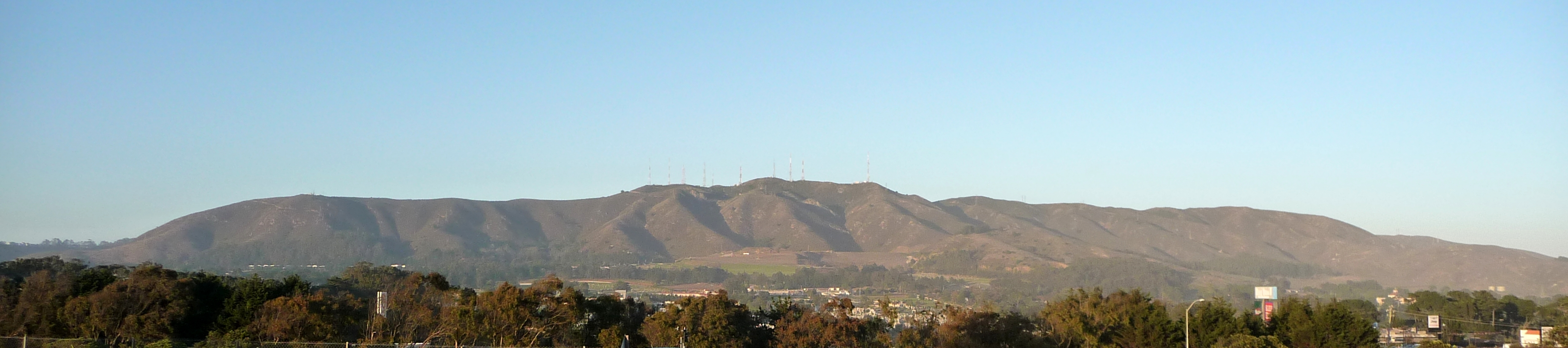 San Bruno Mountain, taken from Seramonte shopping center, Daly City. Town of Colma is visible in the foreground.